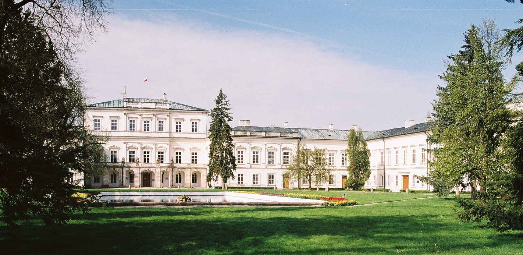 Pałac Czartoryskich in Puławy, Poland; view from courtyard at the central part of the palace